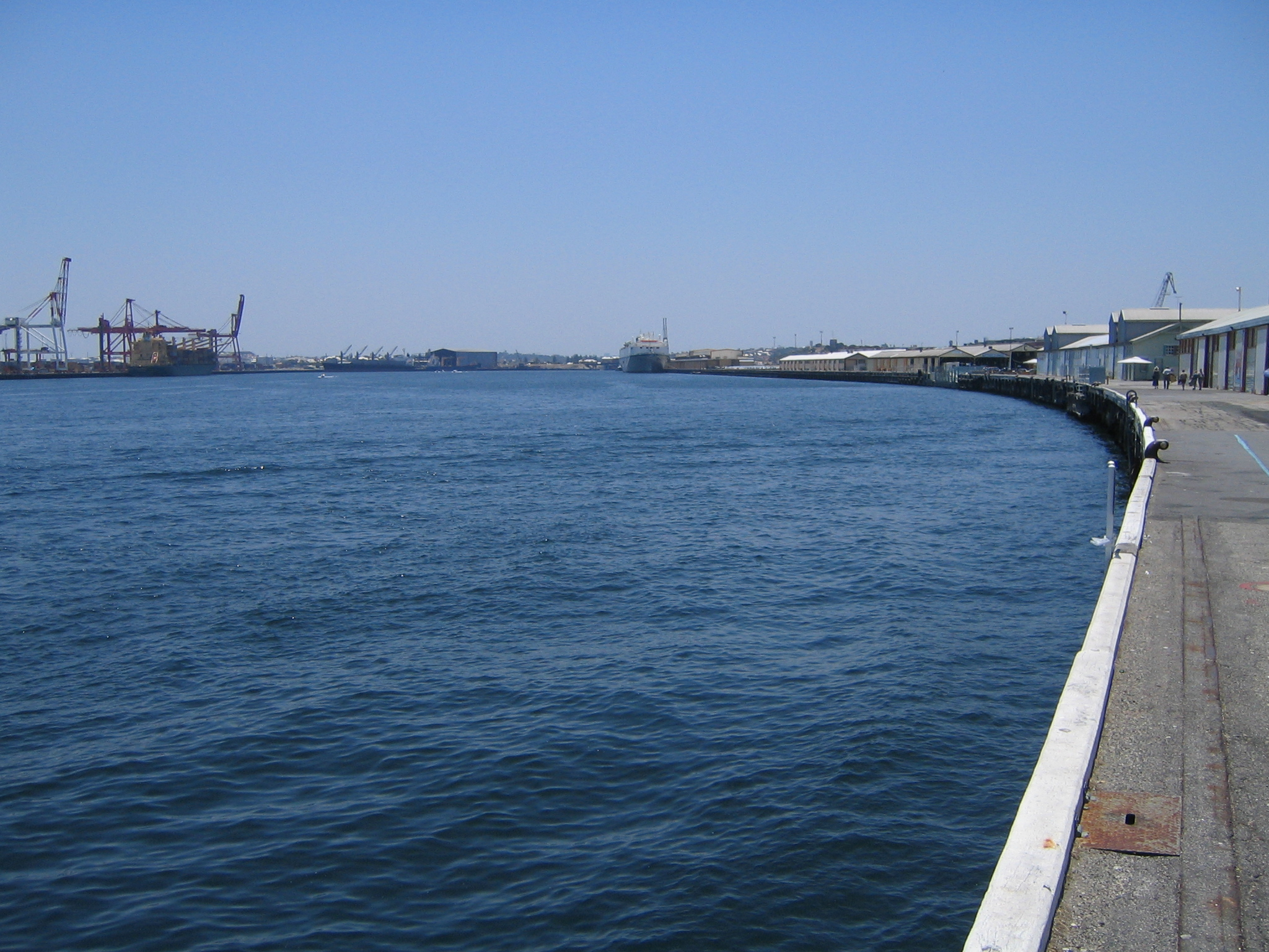 Fremantle Harbour viewed from Victoria Quay, Fremantle, Western Australia